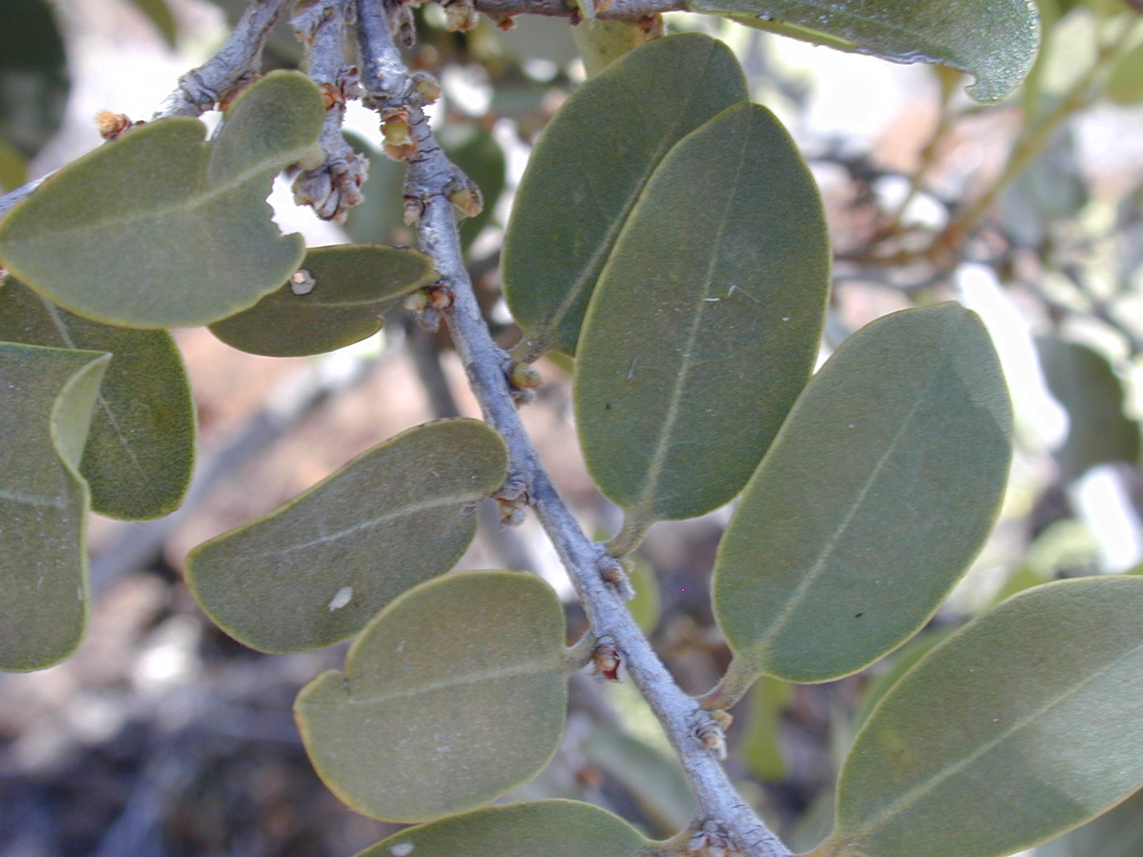 Diospyros sandwicensis (leaves). Location: Maui, Puu o Kali